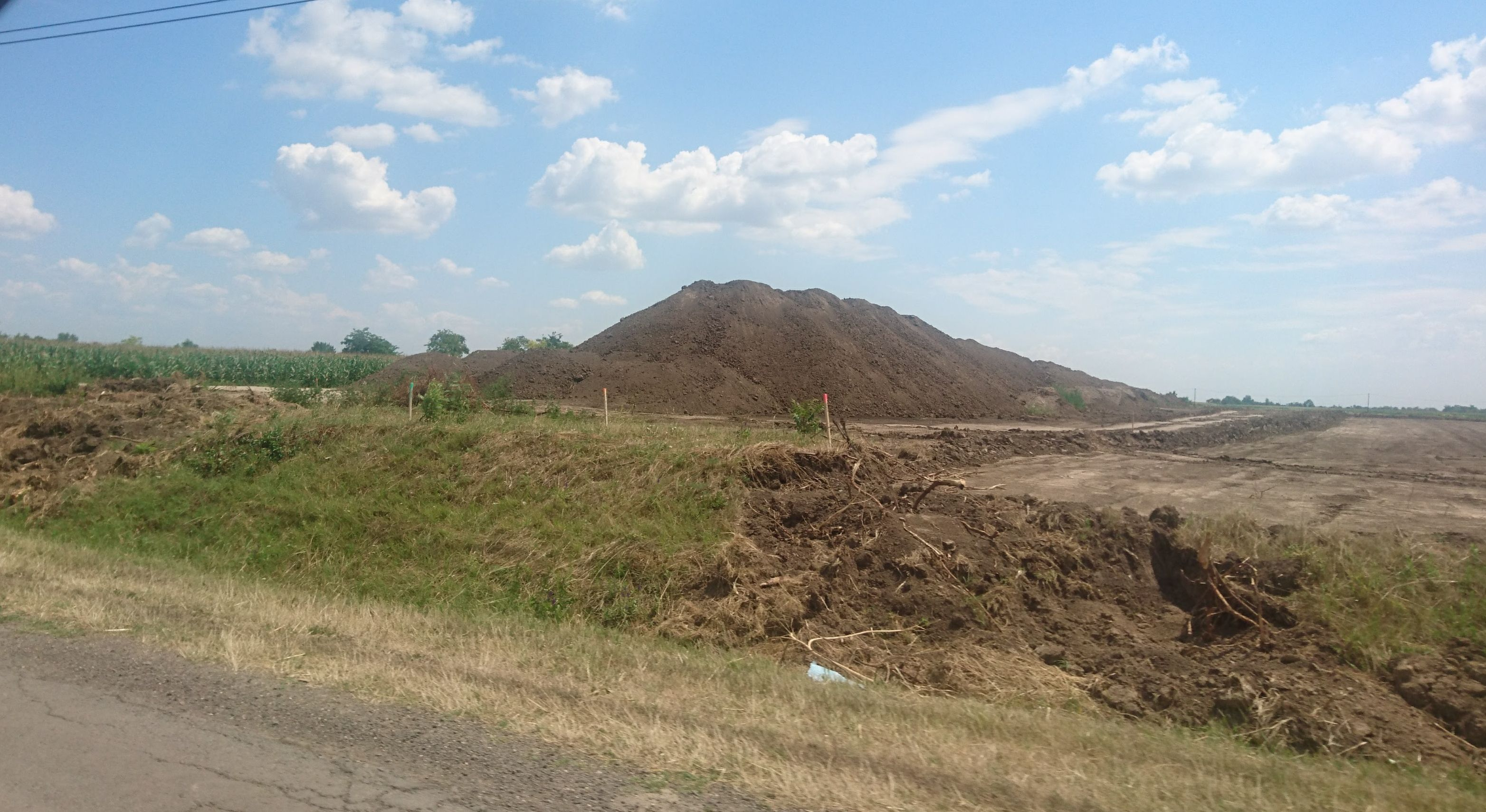 The Motorway M44 is under construction at Kondoros South crossroads, crossing over the 4642 road in July 2017.